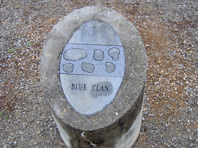 The Blue Clan pillar at the Chota Monument in Monroe County, Tennessee, in the southeastern United States. This pillar is one of eight pillars representing the seven Cherokee clans and the Cherokee Nation. The monument rests directly above Chota's ancient townhouse.